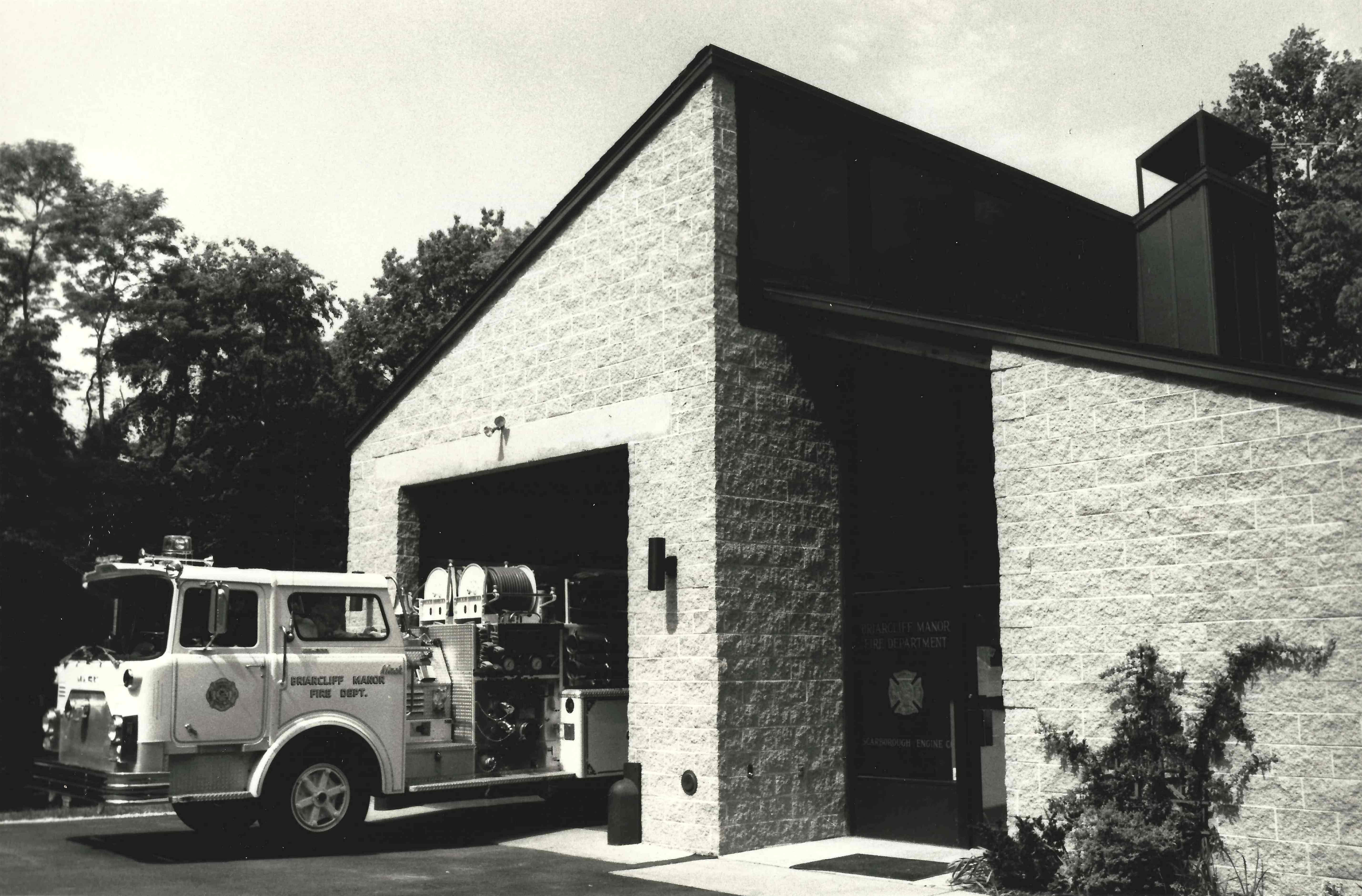 This Briarcliff Manor Fire Department station in Scarborough stood 1974 and 2009, the lifespan of the building shown. The truck is the Scarborough Engine Company's new truck, purchased in January 1975, which was used until 1995. It's seen in this photograph, on the middle left.